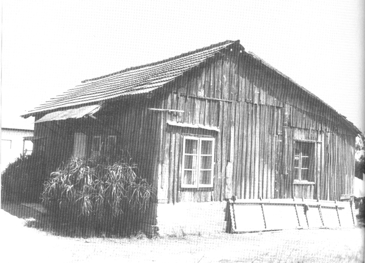 This is the first hut in Magdiel - Hod Hasharon was built by the family of Colton